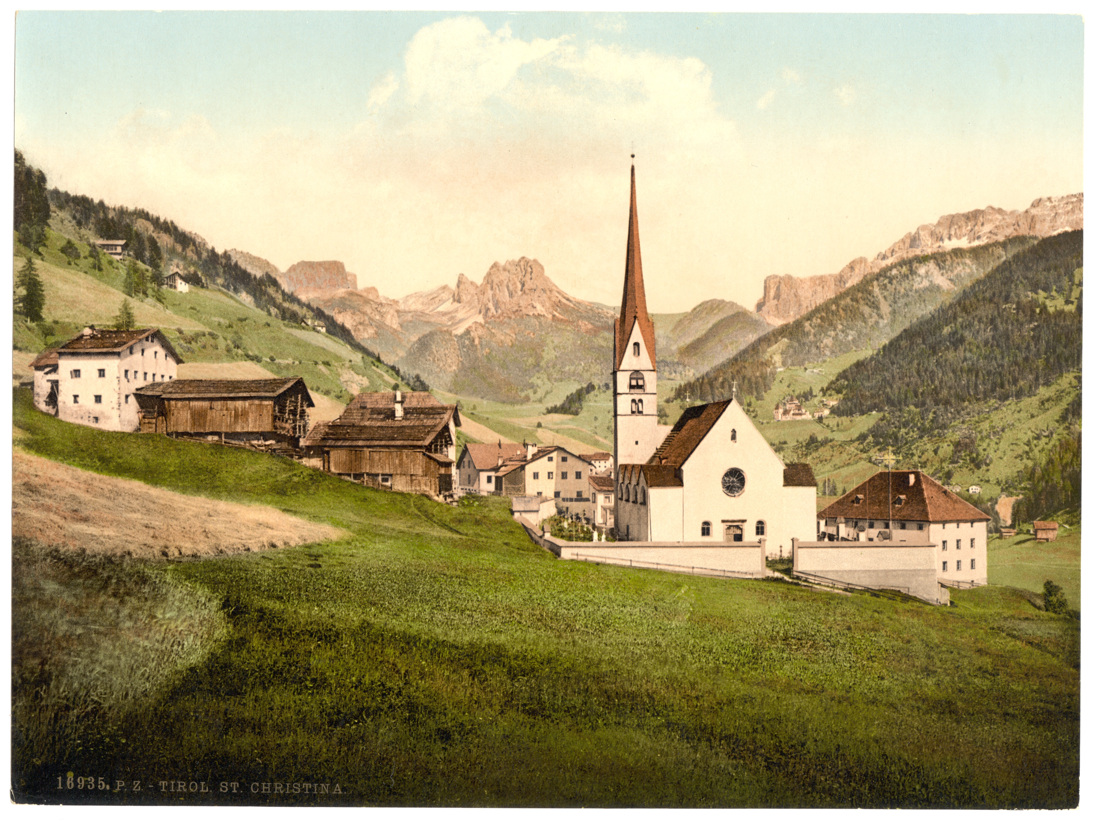 Print no. "16935".; Title from the Detroit Publishing Co., Catalogue J-foreign section, Detroit, Mich. : Detroit Publishing Company, 1905.; Forms part of: Views of the Austro-Hungarian Empire in the Photochrom print collection.